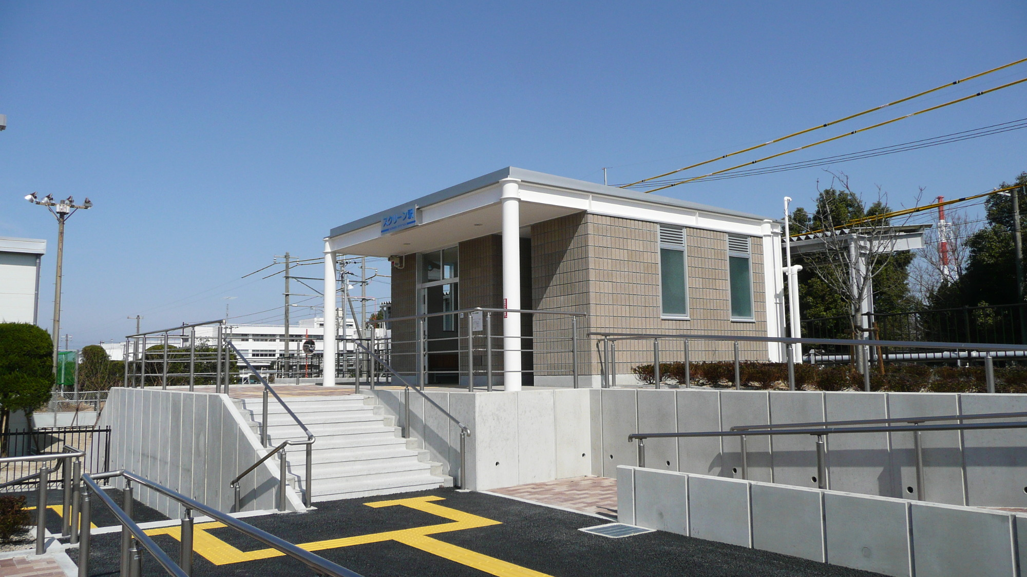 Ohmi Railway,SCREEN Station. / 近江鉄道多賀線スクリーン駅